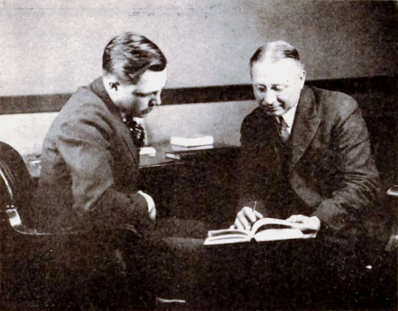 Director King Vidor and author Ellis Parker Butler discussing The Jack-Knife Man, which was being filmed in 1920, on page 66 of the May 15, 1920 Exhibitors Herald.